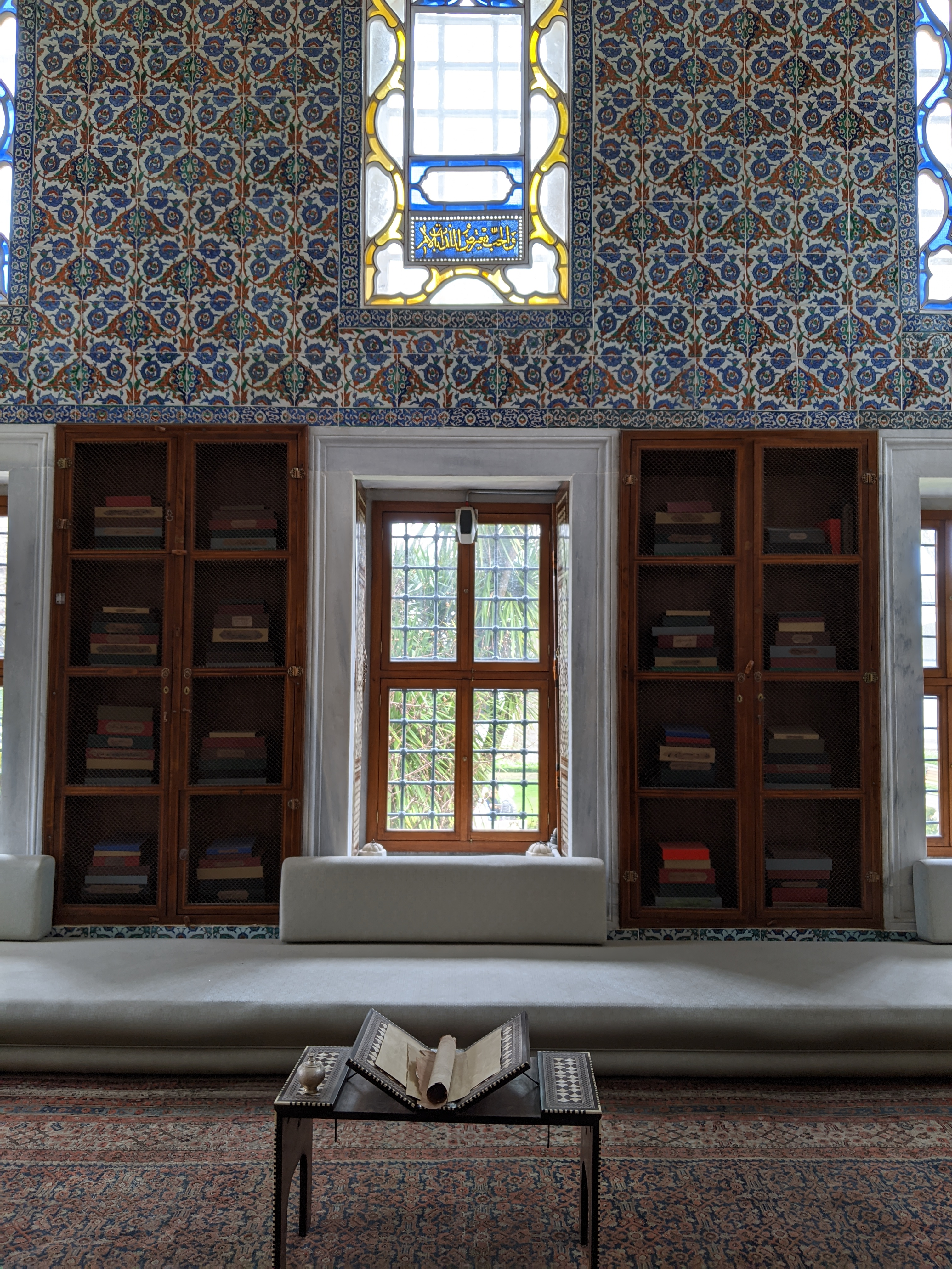 Reconstruction of an Ottoman style library, in the Topkapı Palace museum Topkapı Palace Native nameTopkapıParent institutionHistoric Areas of IstanbulLocationEminönü, TurkeyCoordinates41° 00′ 46.8″ N, 28° 59′ 02.4″ E Established1475Web pagemuze.gen.trAuthority control : Q170495 VIAF: 149600133 ISNI: 0000 0001 2182 4883 ULAN: 500300600 LCCN: n50075577 GND: 4263672-3 WorldCat institution QS:P195,Q170495